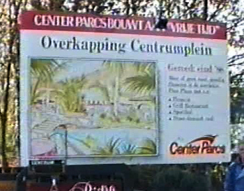 Announcement for the building of the new Parc Plaza at 'Het Meerdal'. Picture taken in november 1988 at Center Parcs 'Het Meerdal'. The picture is own work and first published at Wikimedia Commons. The picture contains the old -and not used- logo of the company 'Center Parcs'. Even though this picture has been taken in a public space, permission for usage was asked and has been granted by the public relations department of the company 'Center Parcs Europe' on 5-2-2007.